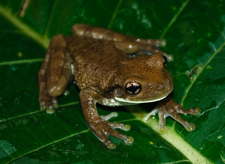 Trachycephalus venulosus